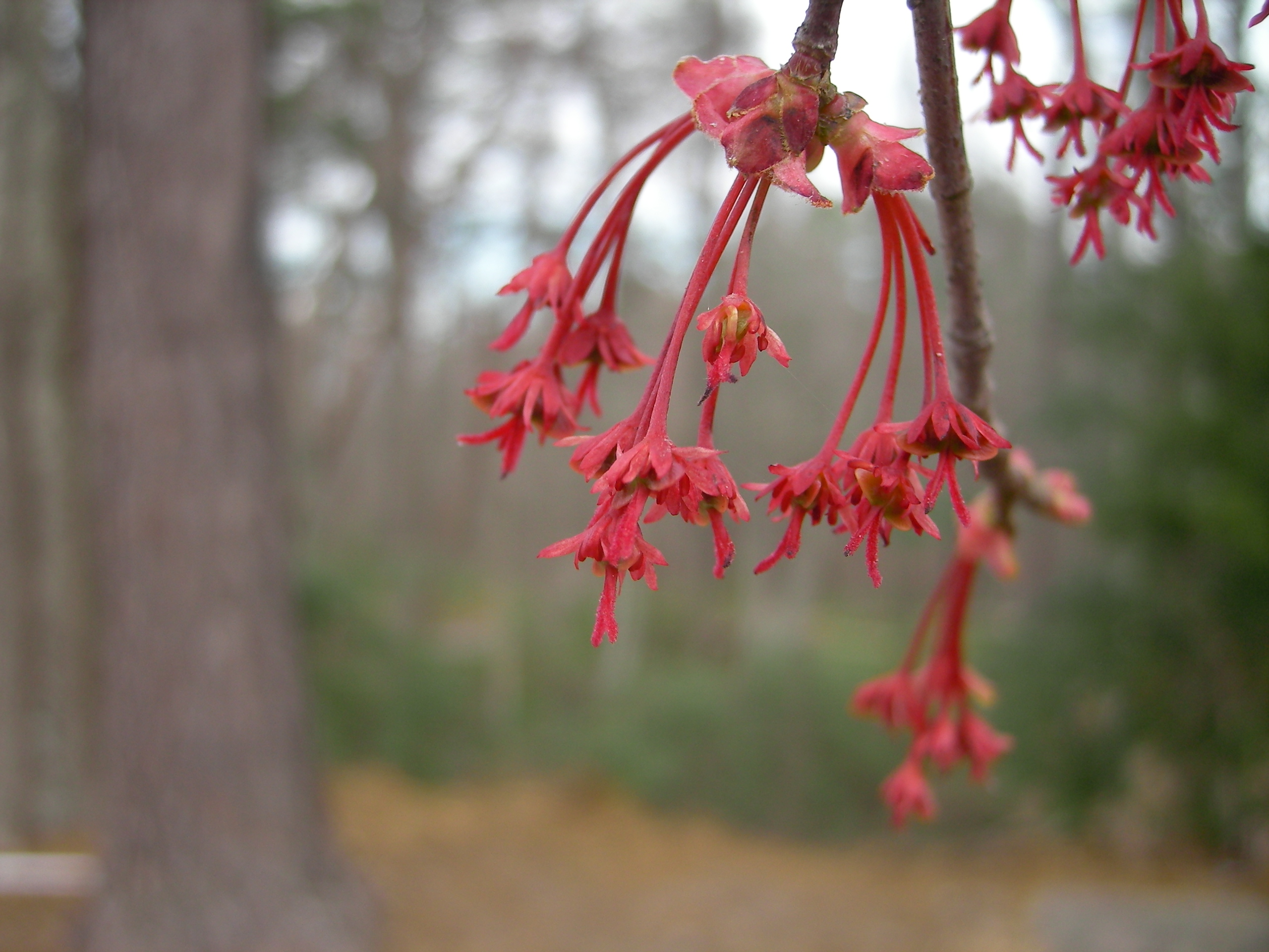 Acer rubrum, Tyler, Texas.